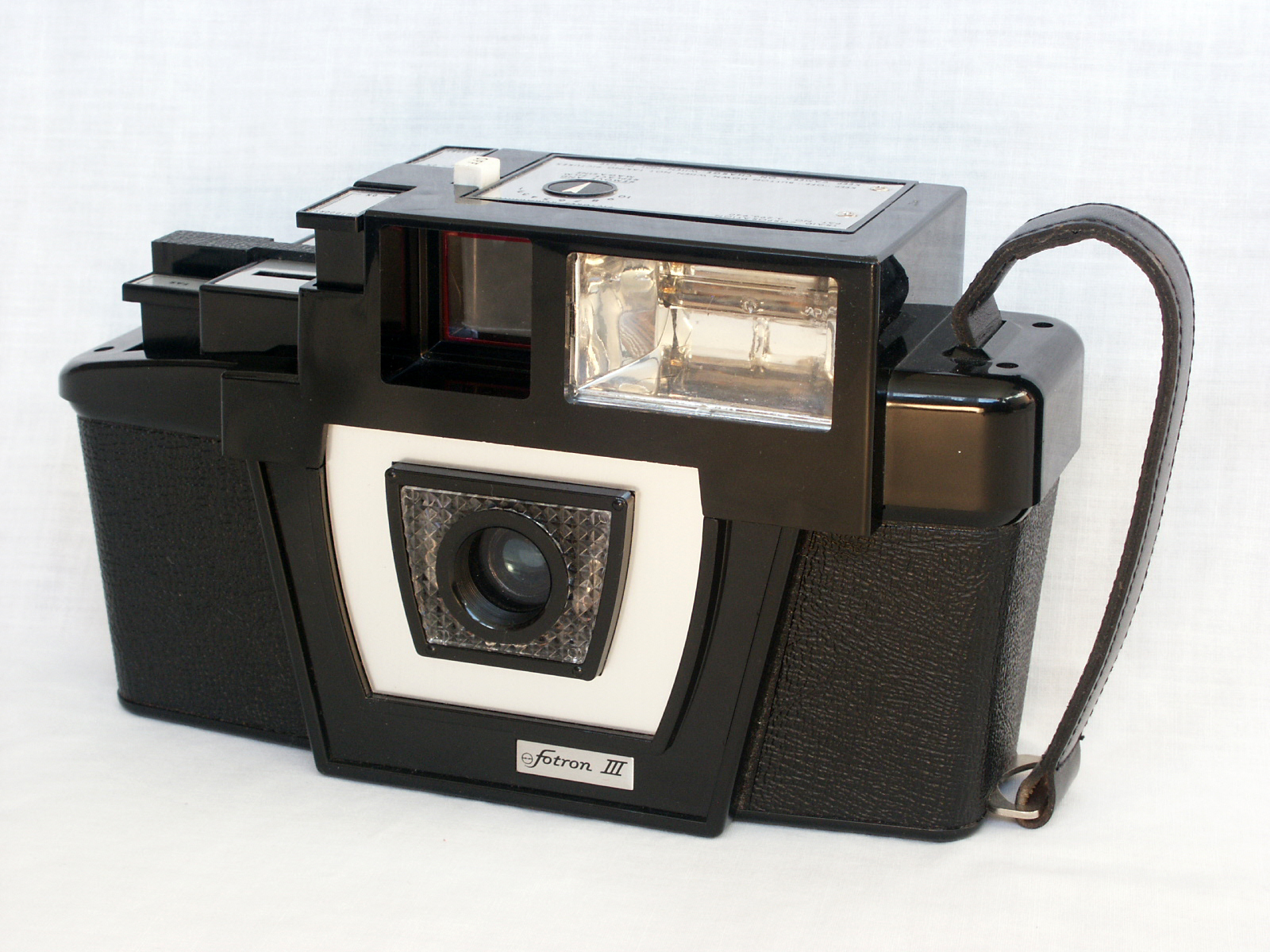 Fotron III, 1960s. Photo by camerafiend.